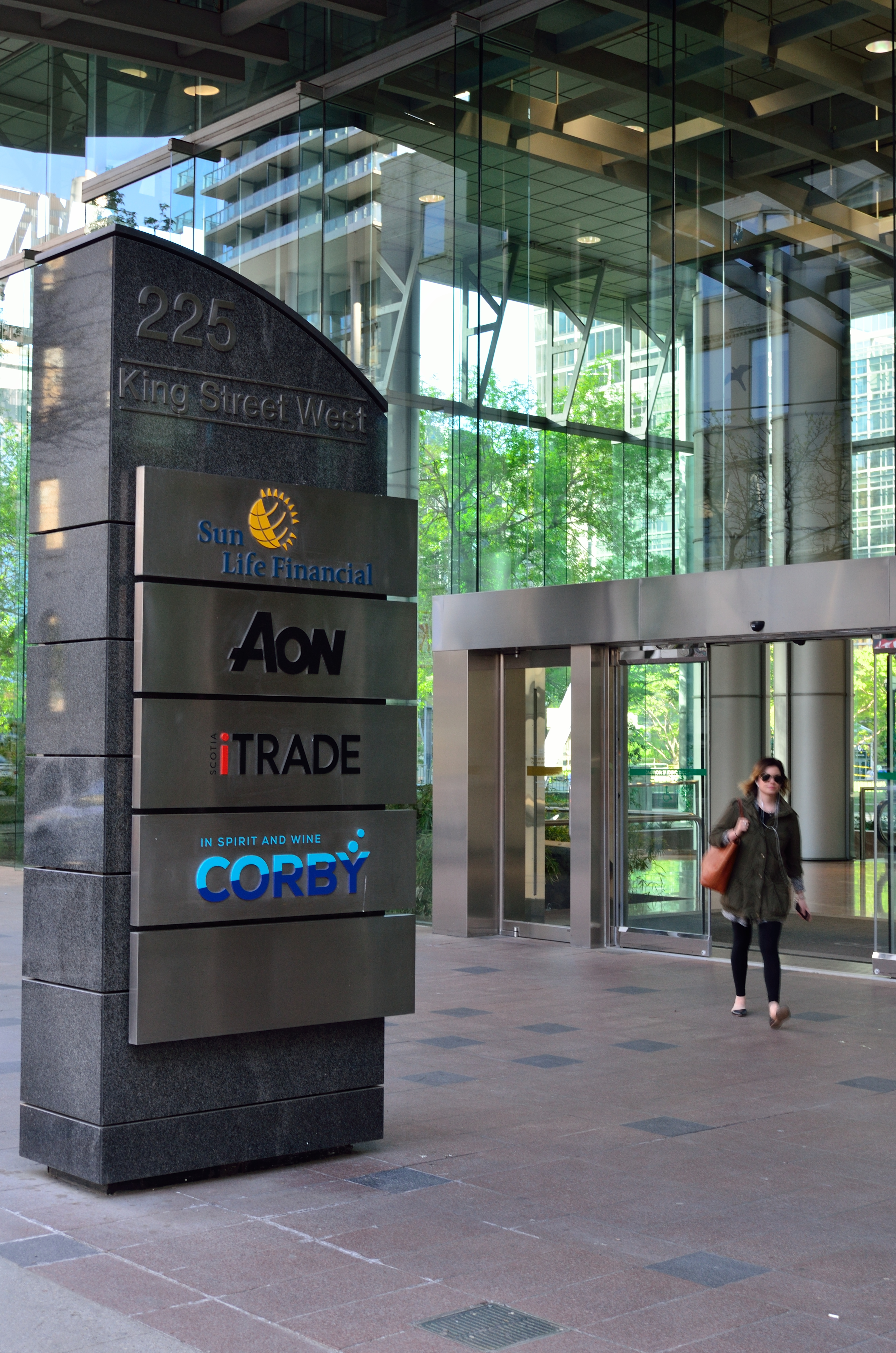 King Tower - Address: 225 King St West, Toronto, ON M5V 3M2